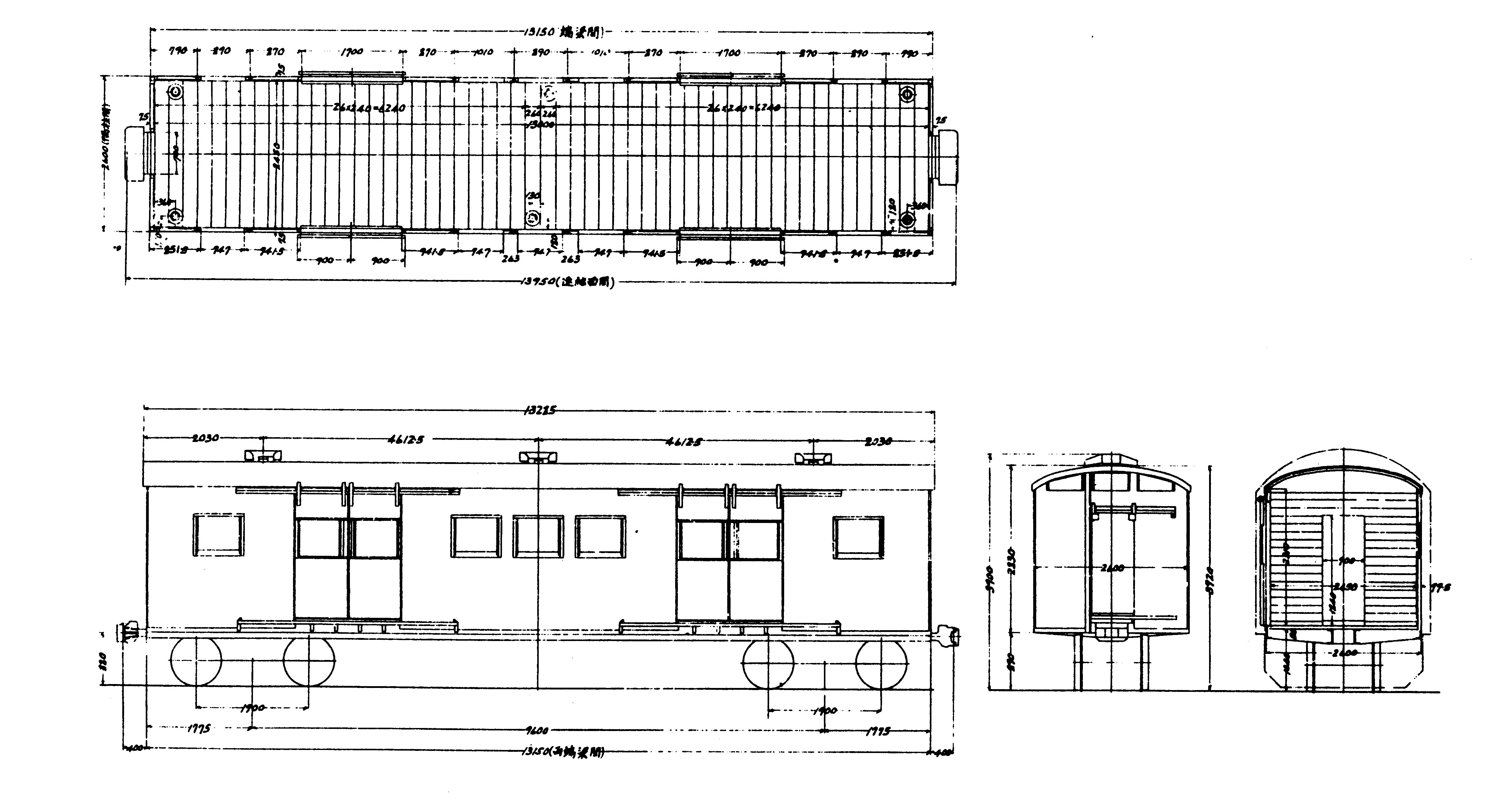 Type drawing of JNR's Class Waki1 freight car (type3)